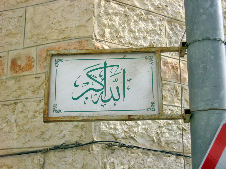 Sur Baher near Jerusalem